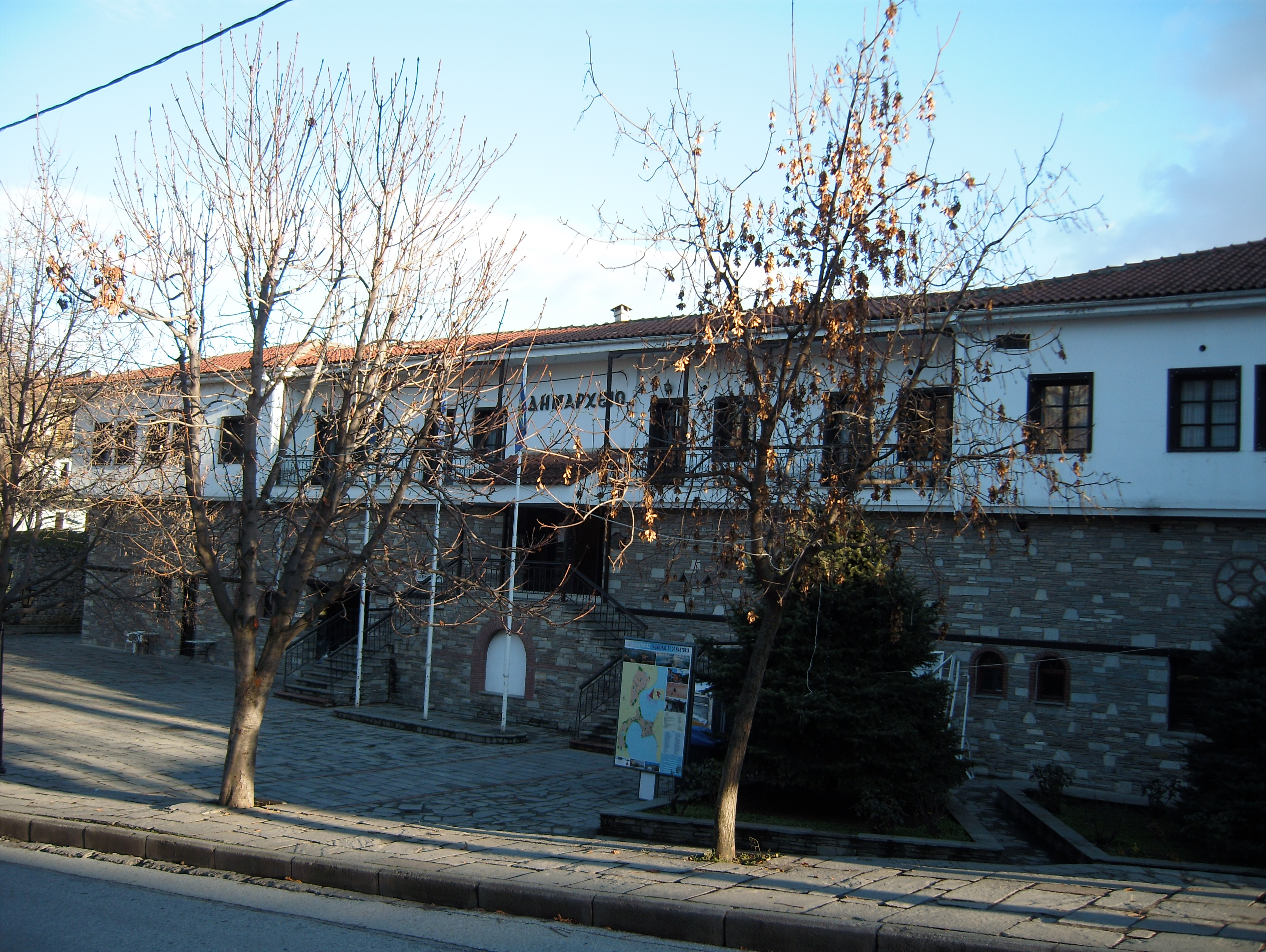 Views of Kostur / Kastoria